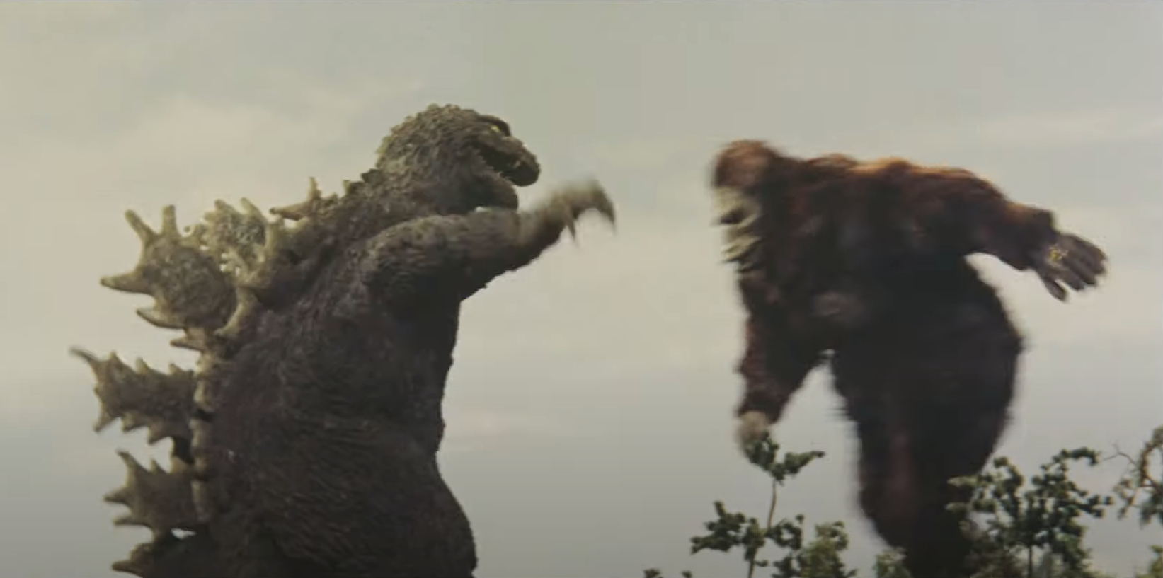 Battle sequence from King Kong vs Godzilla.